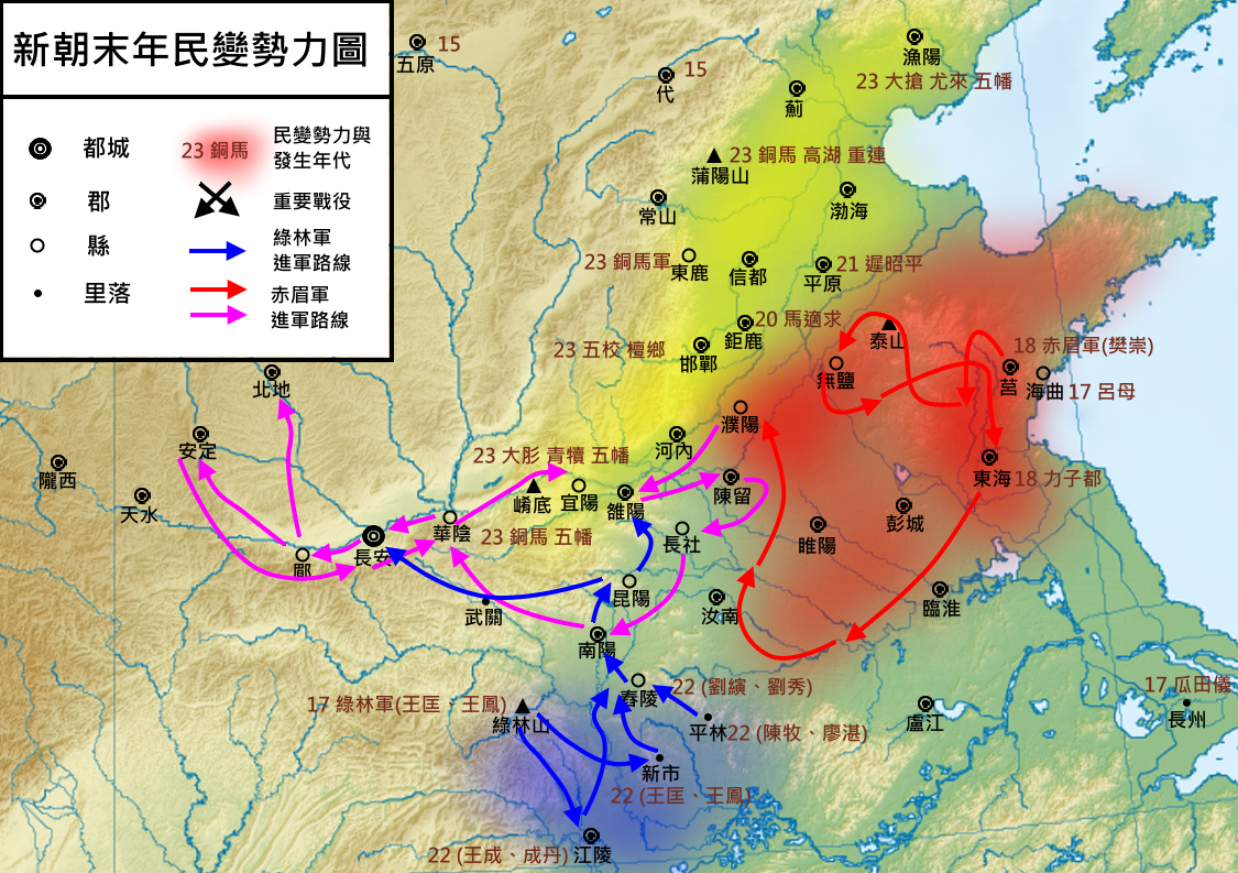 xin dynasty people's rebellion